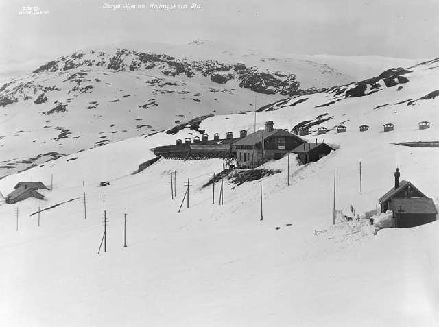 Hallingskeid Station of the Bergen Line in Norway